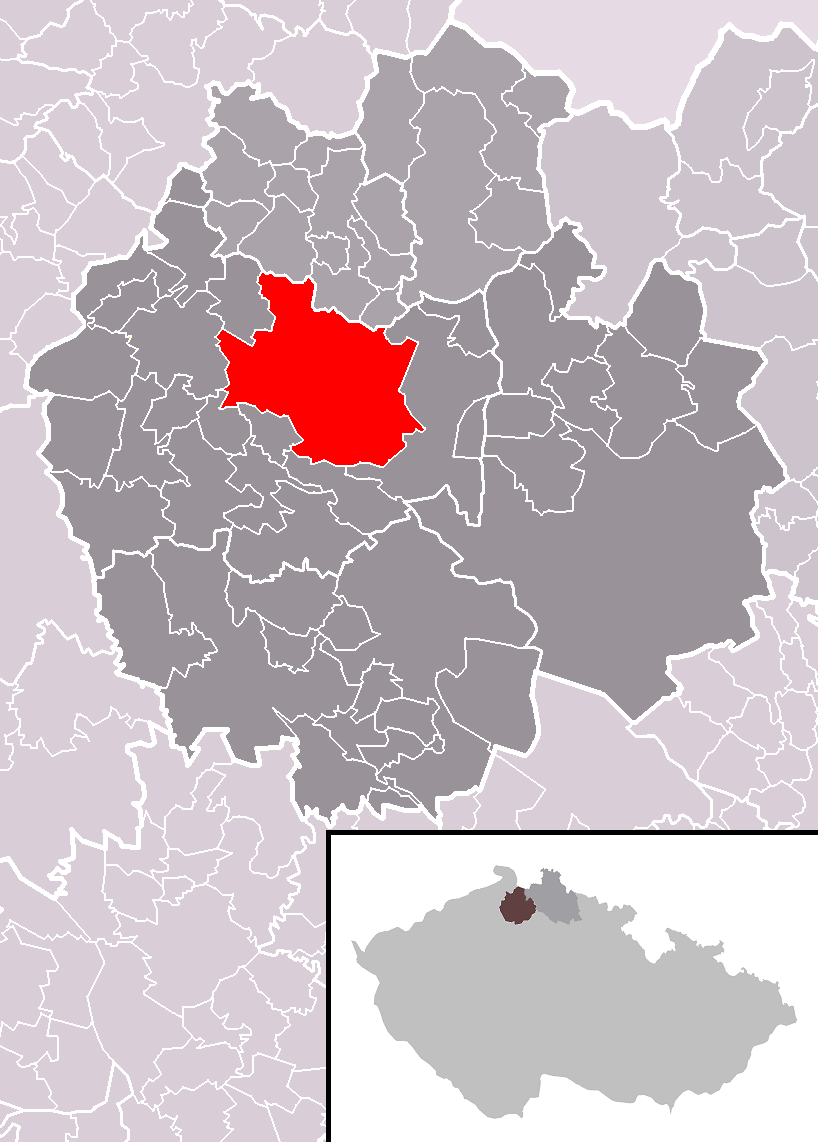 Location of Česká Lípa town within Česká Lípa District and administrative area of Česká Lípa as a Municipality with Extended Competence.